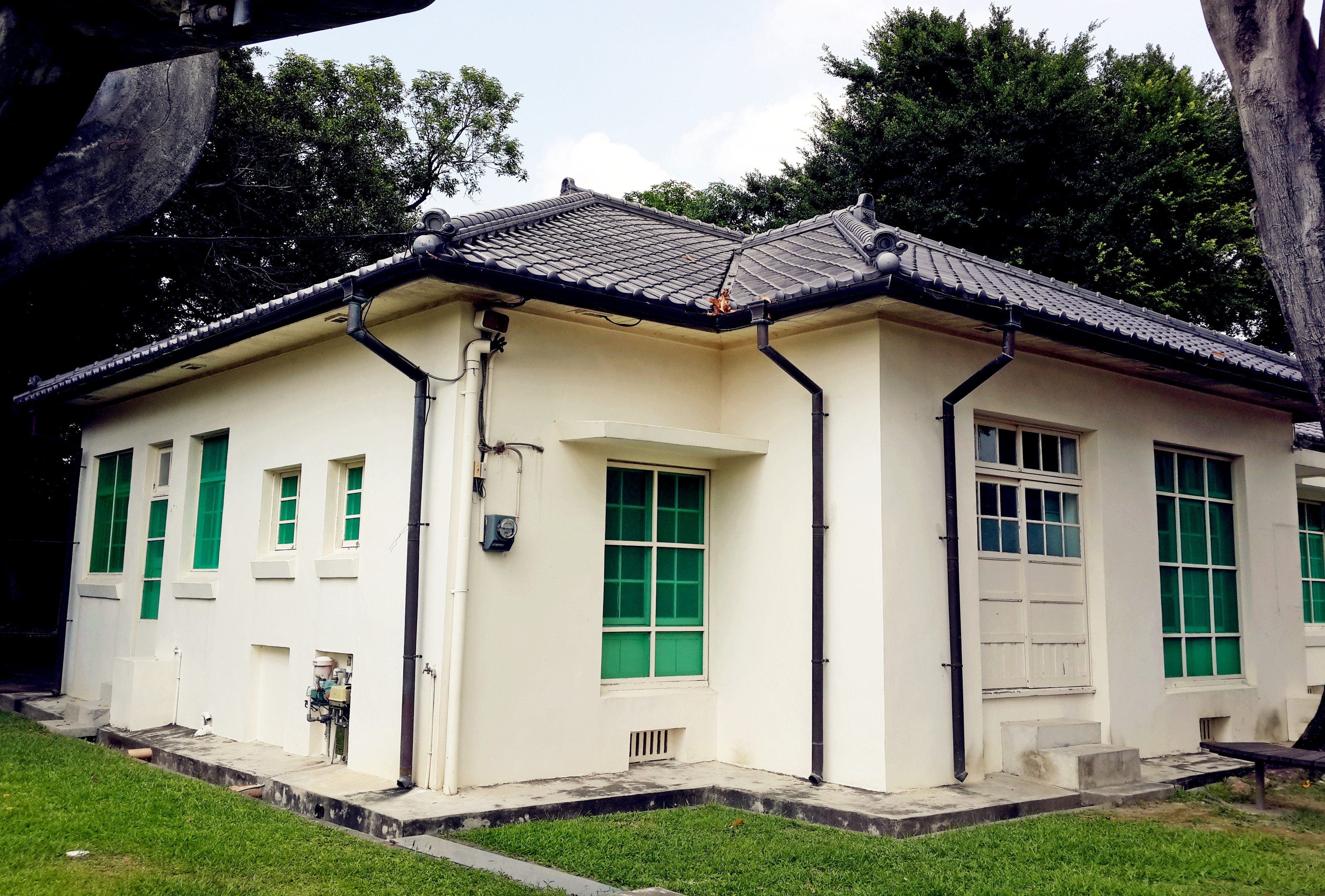 Pingtung City Shengli Village and Chongren Village used to be where the officers' residences were located during Japanese rule. in 2007 by the Pingtung County government registered as a historical complex, a total of 70 built in 1928 to 1951 years of Japanese-style wooden dormitory. The Cultural Office also chose the former Officers' quarters to be the "House of the General" as a unique culture of the culture of the houses and the buildings.